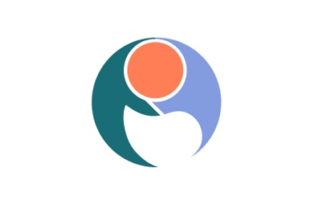 Flag of Noto Ishikawa